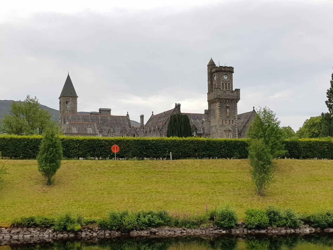 Fort Augustus in Scottish Highlands